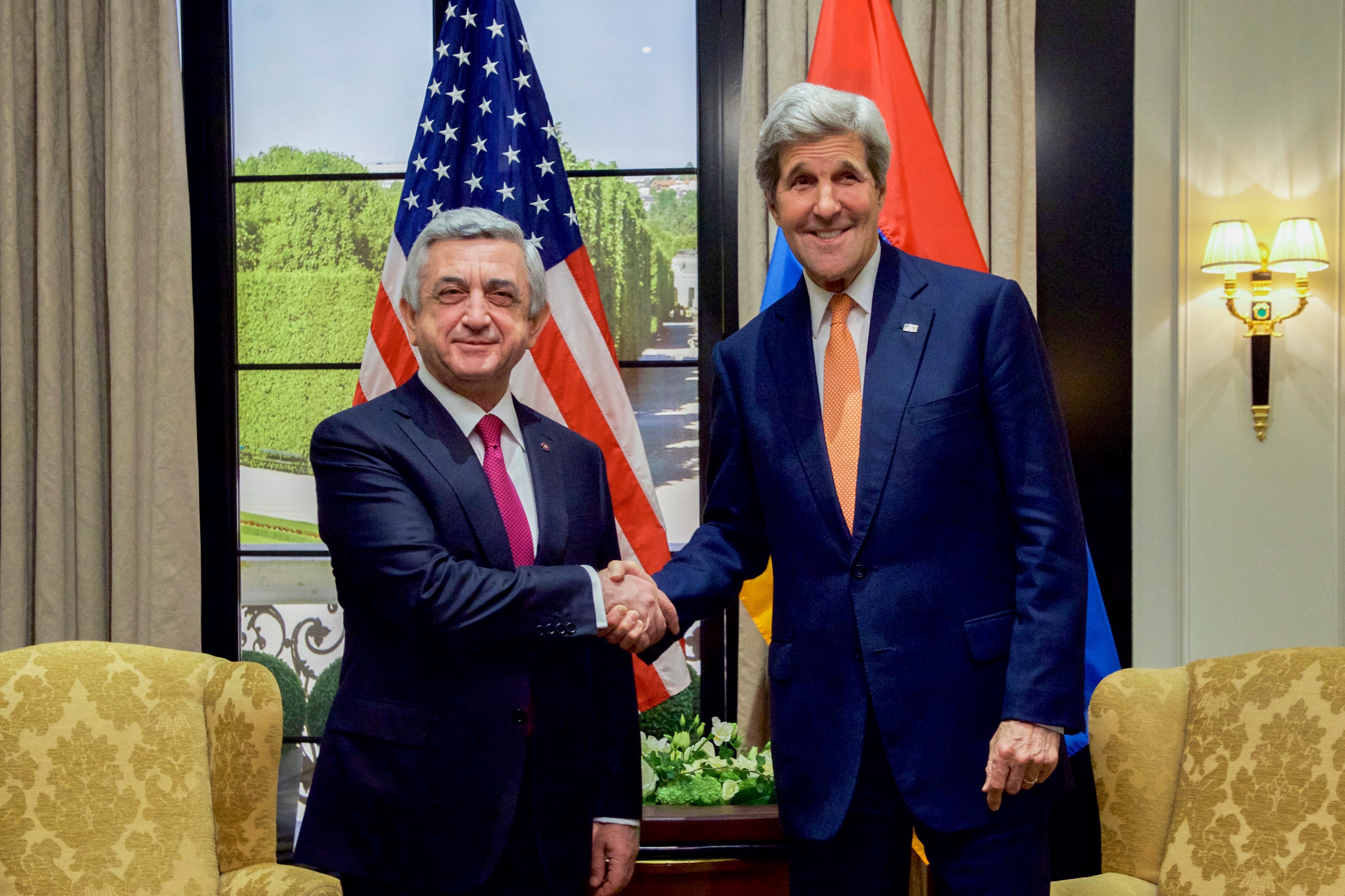 U.S. Secretary of State John Kerry shakes hands with Armenian President Serzh Sagsyan on May 16, 2016, at the Bristol Hotel in Vienna, Austria, before U.S., Russian, and French officials sat down with Armenian and Azarbaijani leaders in an effort to calm tensions over the disputed Nagorno-Karabakh region. [State Department photo/ Public Domain]